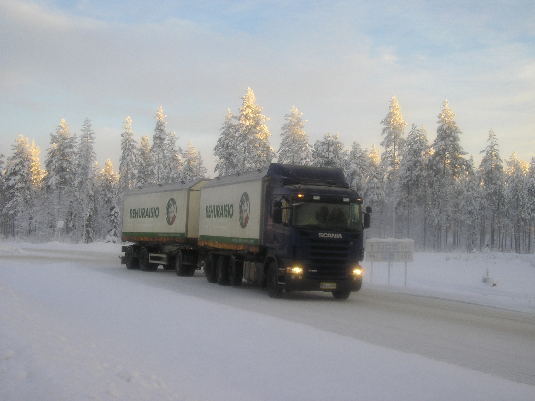 Scania truck of Rehuraisio in Pyhäjärvi, Finland